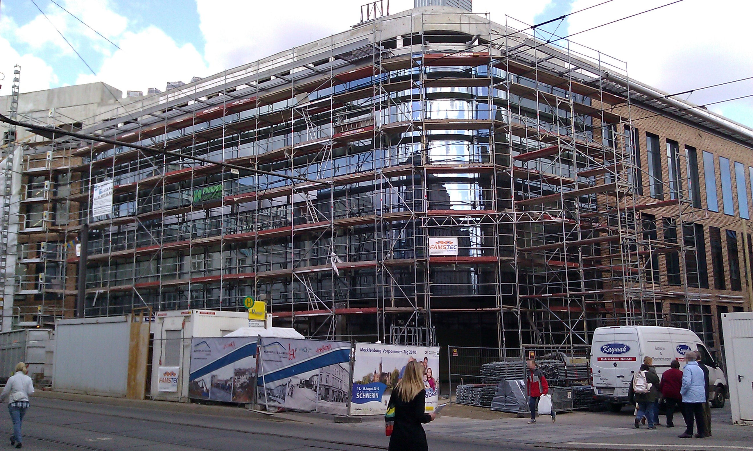 Marienplatz-Galerie under construction in Schwerin, Mecklenburg-Vorpommern, Germany